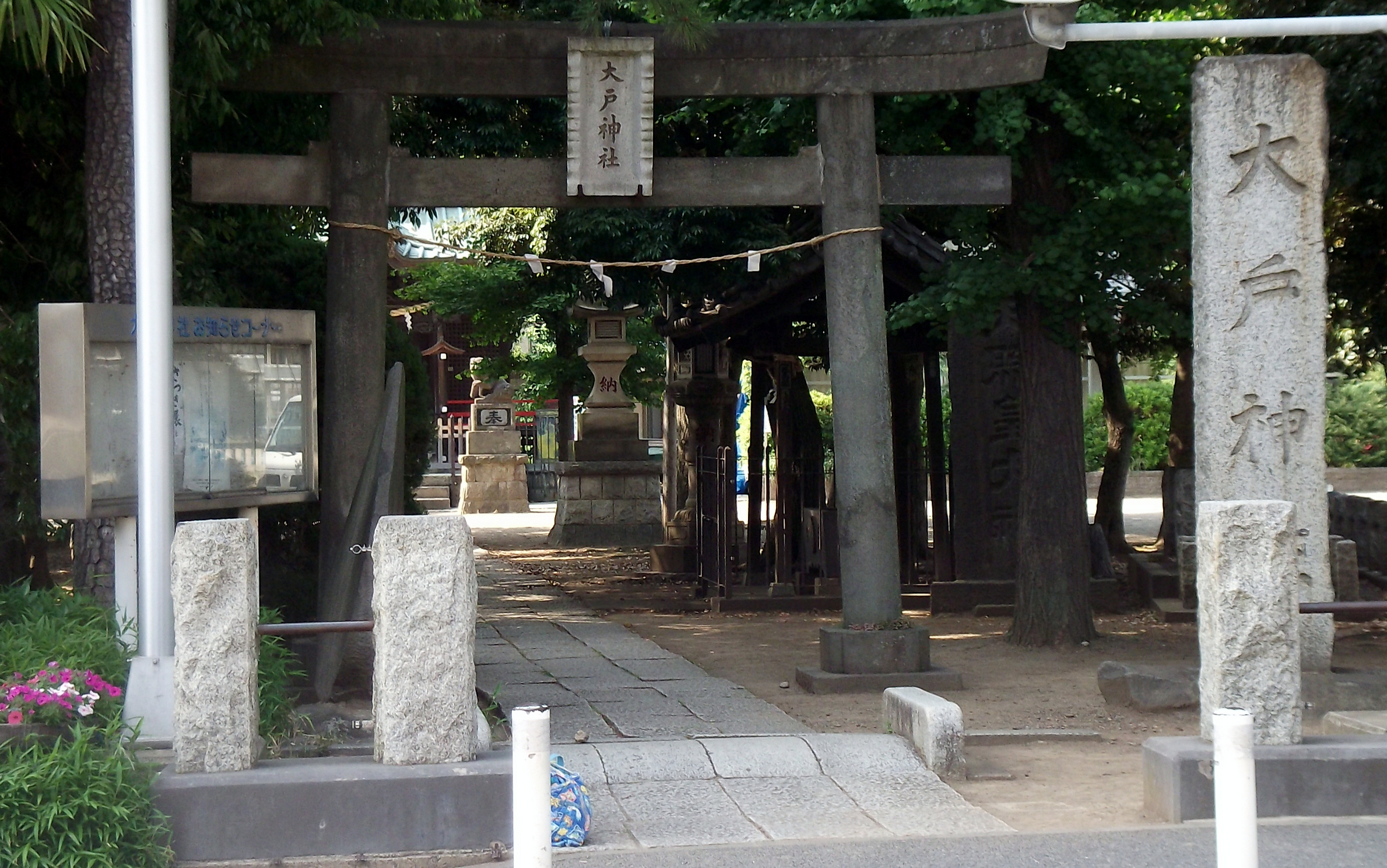 Oto shrine at Shimo-kodanaka, Nakahara-ku, Kawasaki.